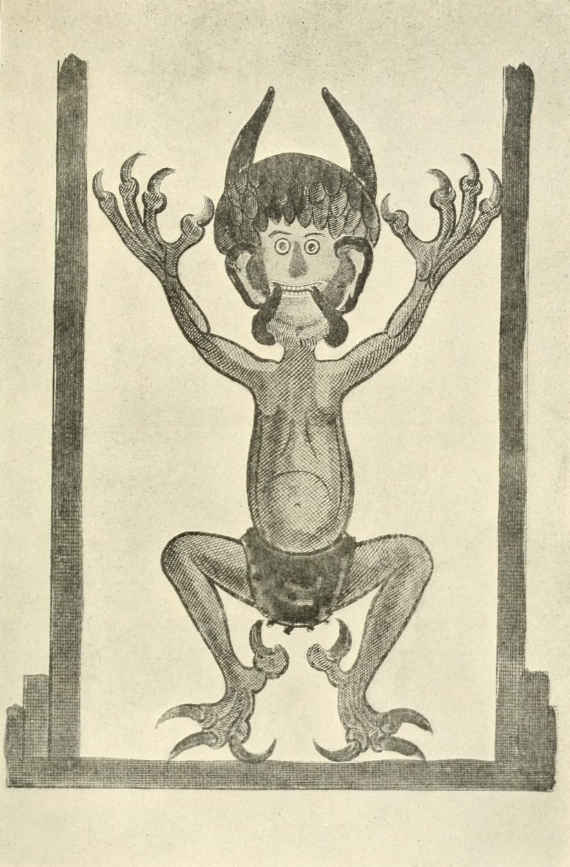 Šetek or Skřítek, a Bohemian version of Domovoy (the Slavic god of the household, deified progenitor of the kin) in his Christianised representation as a hellish hobgoblin.